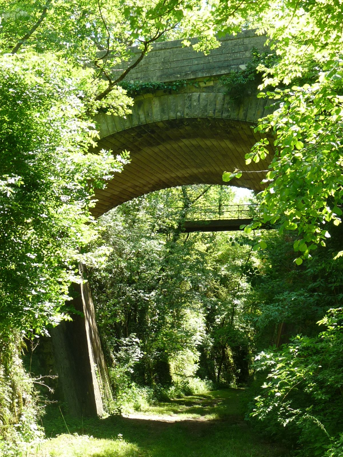 old railroad near Edon, Charente, SW France